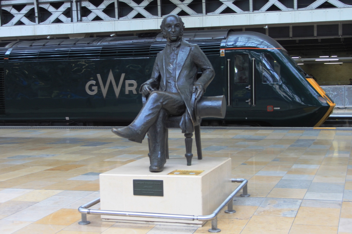 Paddington station was the London terminus of the Great Western Railway. First Group have revived that famous company's name which so a modern GWR-liveried High Speed Train (with power car 43187) can draw up alongside Brunel's statue when at platform 9 of the station.